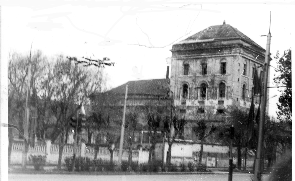 Church of St. Nicolay Yamskаyа in Ryazan in 1990